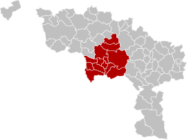 Map of Mons District in province of Hainaut, Belgium.